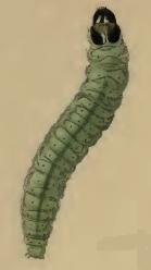 Stainton’s Natural History of the Tineina (1855–1873): Agonopterix rutana